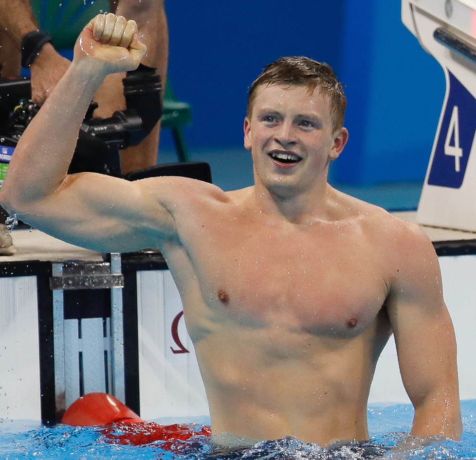 Peaty after winning the 100m Breaststroke Final